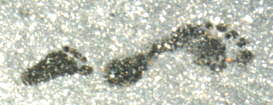 Footprints of mother and little child